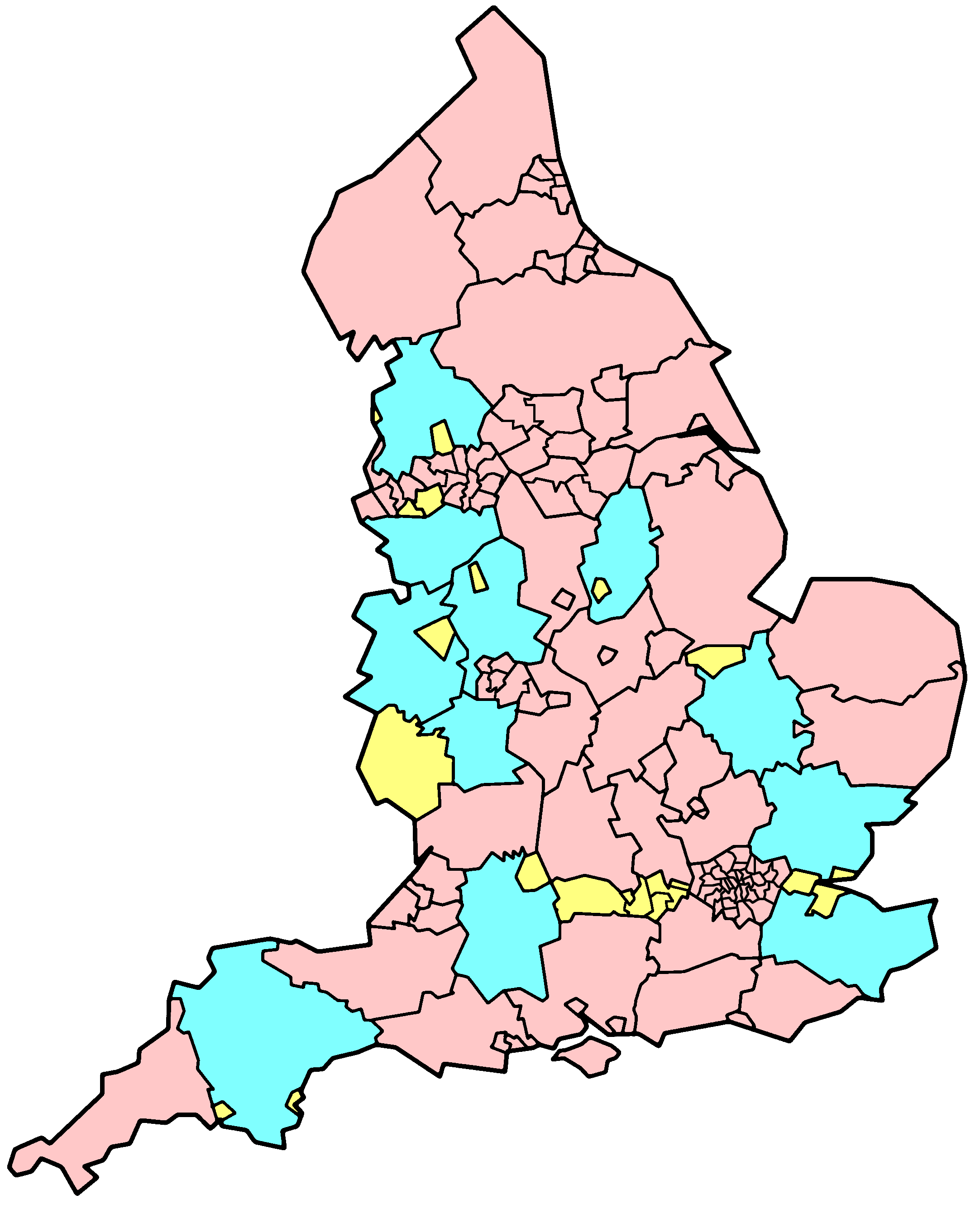 Map showing counties and unitary authorities from 1998. Pink (non-metropolitan) and green (metropolitan and London) areas were left unchanged. Yellow areas are unitary authorities created as a result of the review, whilst blue areas are remaining two-tier counties reduced by the creation of unitary authorities.